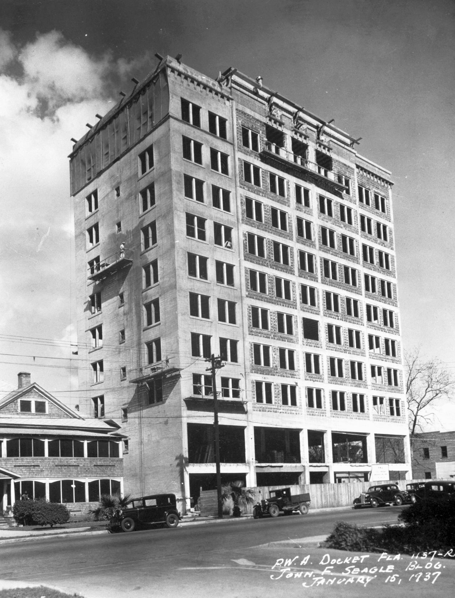 A historic photo of the Seagle Building